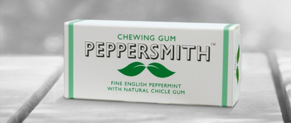 Peppersmith company logo